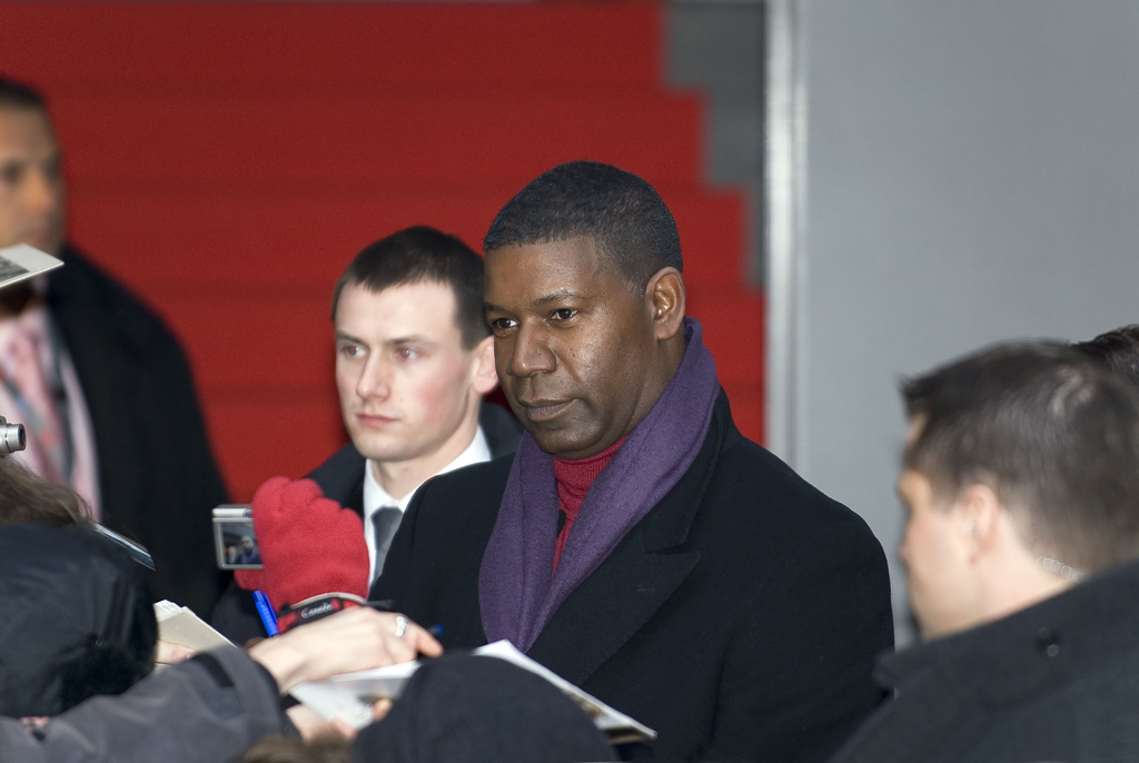 American actor Dennis Haysbert